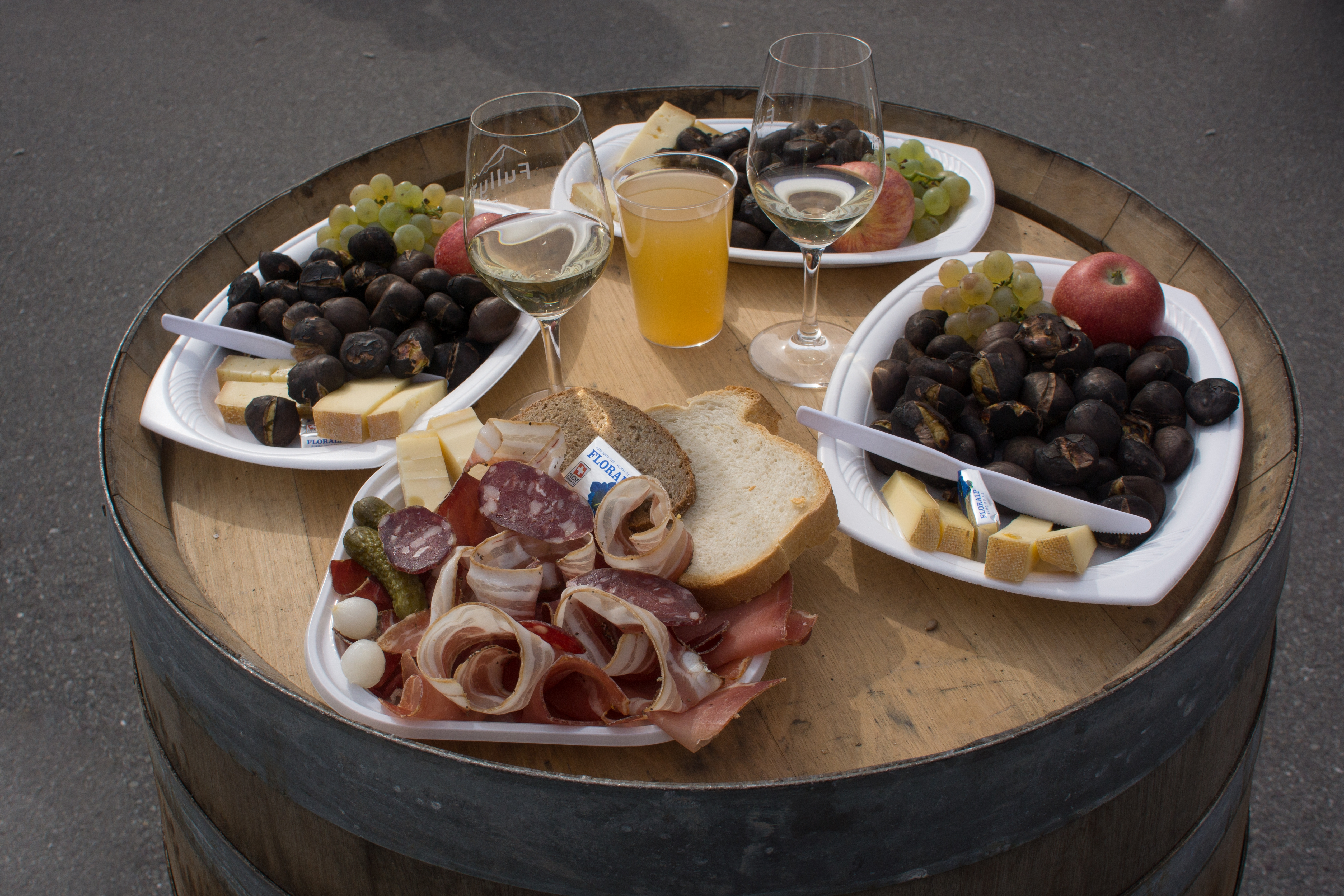 A brisolée: roasted chestnuts served with cheese, autumn fruits, bacon, dried meat, must and white wine.